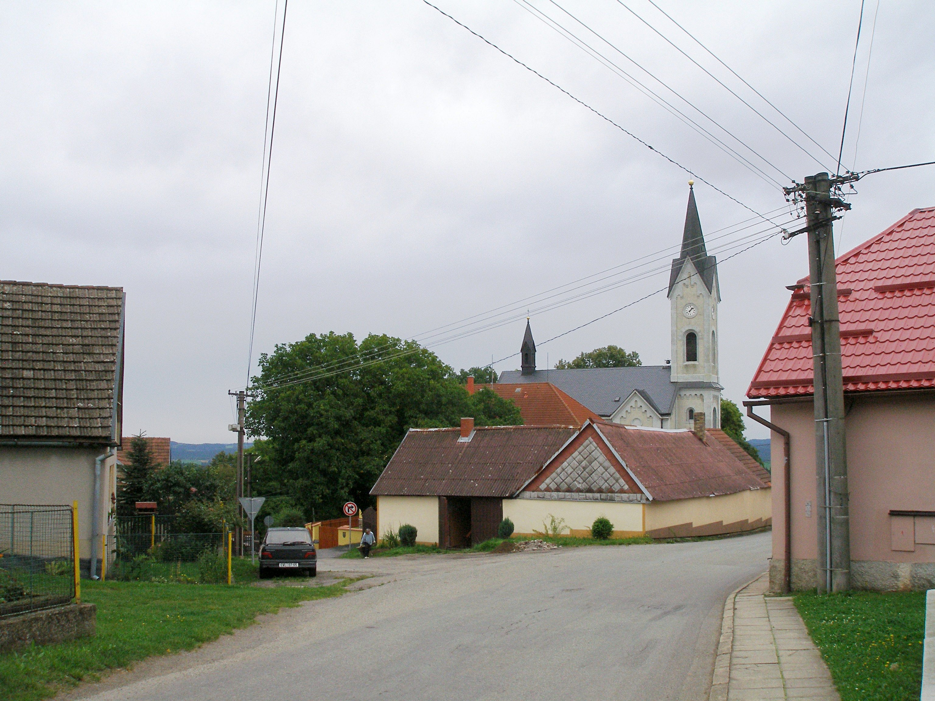 The cntre of Velká Chyška from the northUnknown северный вид центра велкой хишки